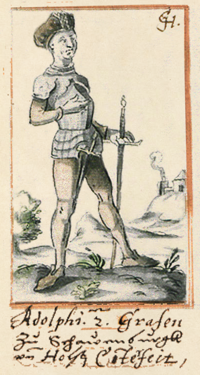 Adolf II of Schauenburg, Holstein and Storman (1128-1164) Miniature from the Rehbein Chronicle (16th century) City Library Lübeck.